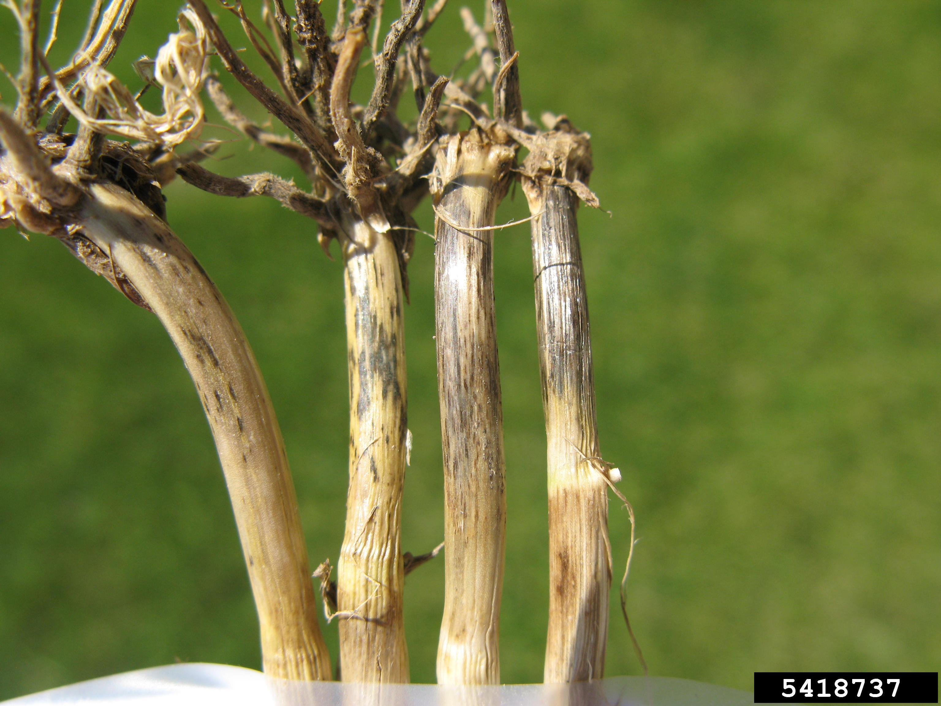 Geaumannomyces graminis var. tritici at Triticum aestivum. A range of symptoms of take all on wheat crowns